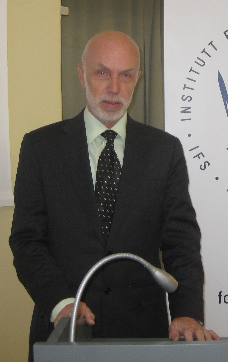 Goldin Vladislav Ivanovich